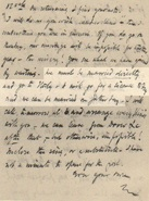 Robert Browning's letter to Elizabeth Barrett dated 10 September 1846, reproduced by permission of Wellesley College Library, Special Collections